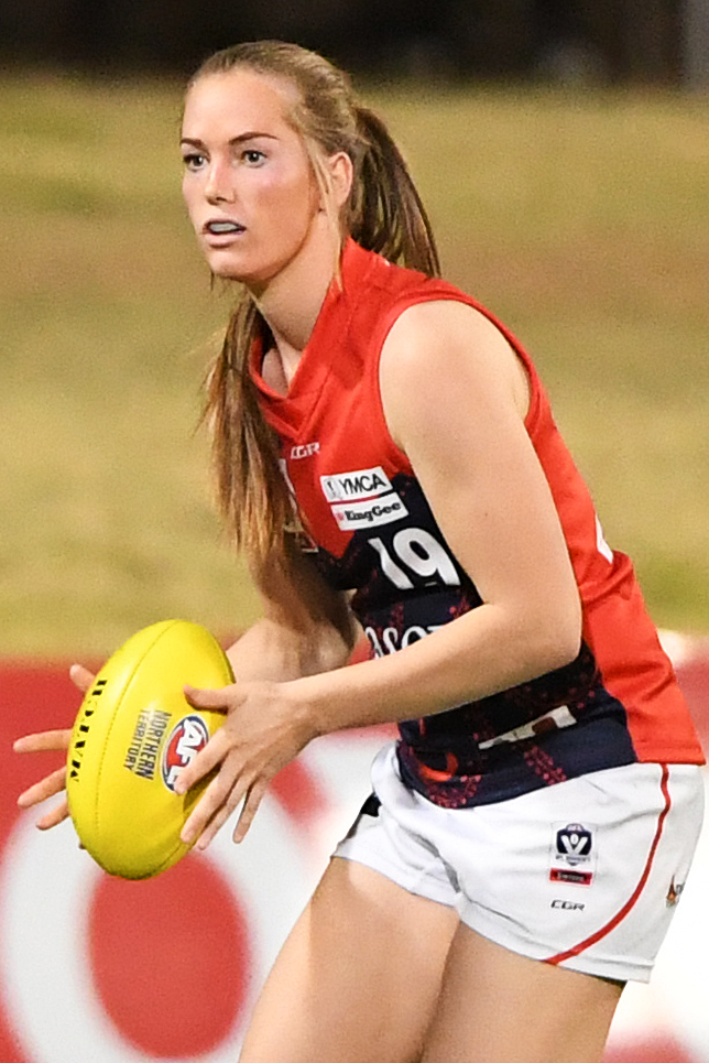 Eden Zanker of Casey during the 2019 VFLW round 11 match between NT Thunder and Casey at Traeger Park on Saturday, 20 July 2019 in Alice Springs, Northern Territory.